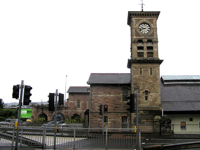 Londonderry Waterside Railway Station – It is located near the Duke Street roundabout, and was opened on 29 December 1852. It closed on 24 March 1980, but the station building remains intact. A new station of the same name replaced the larger terminus in 1980, after services were reduced and track layout was severely rationalised. The station signs now reads "Londonderry", as the suffix Waterside became redundant upon closure of the city's other three railway termini. They were L&LSR, CDR (JC), NCC and GNR(I).